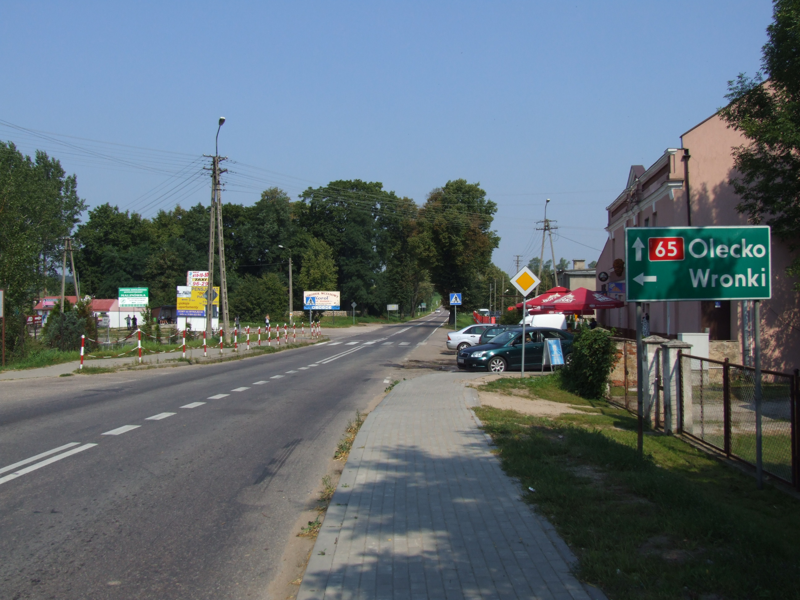 Straduny (Stradaunen) - main road junction